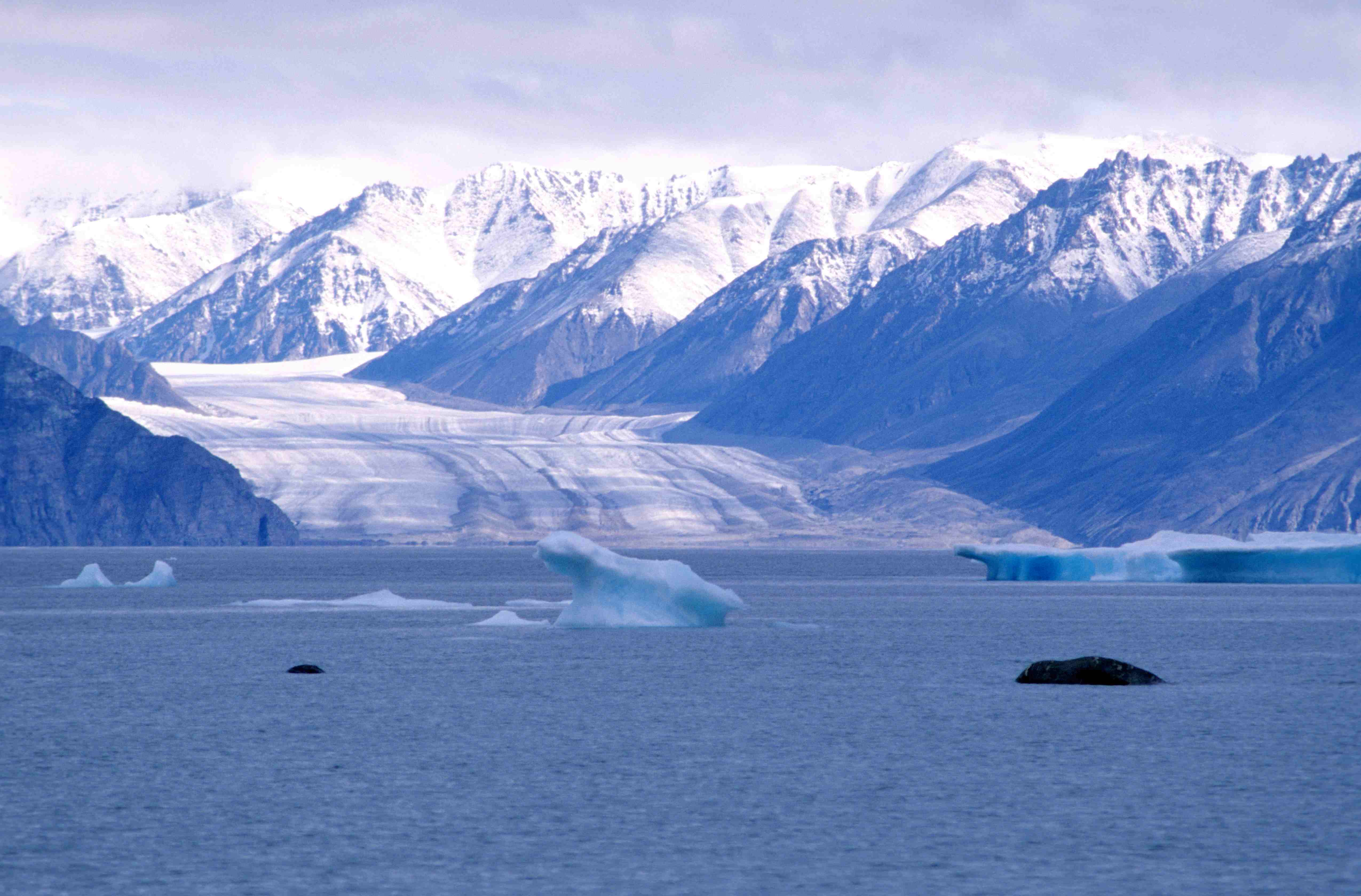 Kaparoqtalik Glacier (southern coast of Bylot Island at Pond Inlet, Sirmilik National Park, Canada)